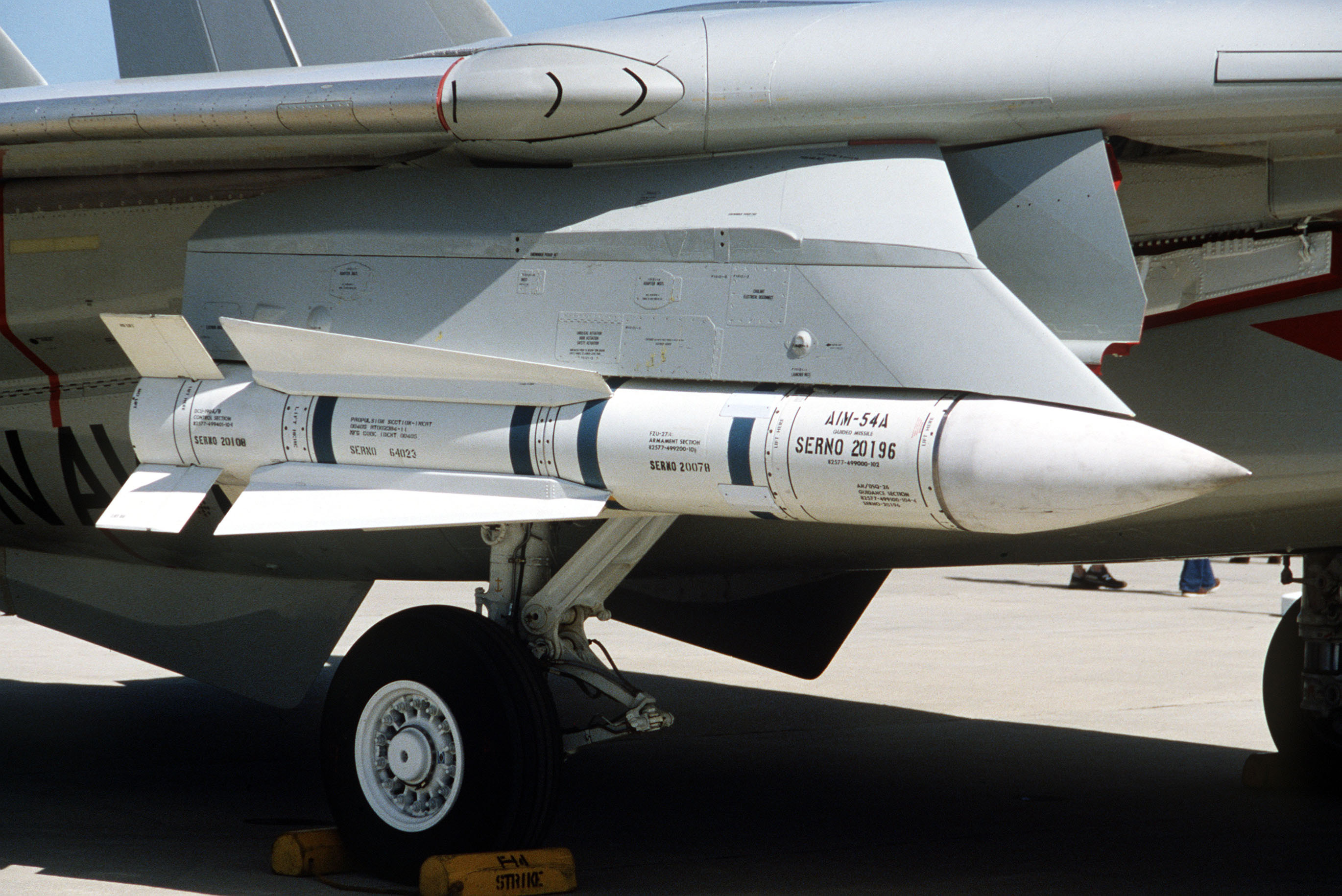 An AIM-54A Phoenix air-to-air missile mounted on a Grumman F-14A Tomcat fighter at Naval Air Station Patuxent River, Maryland (USA), on 13 May 1984.